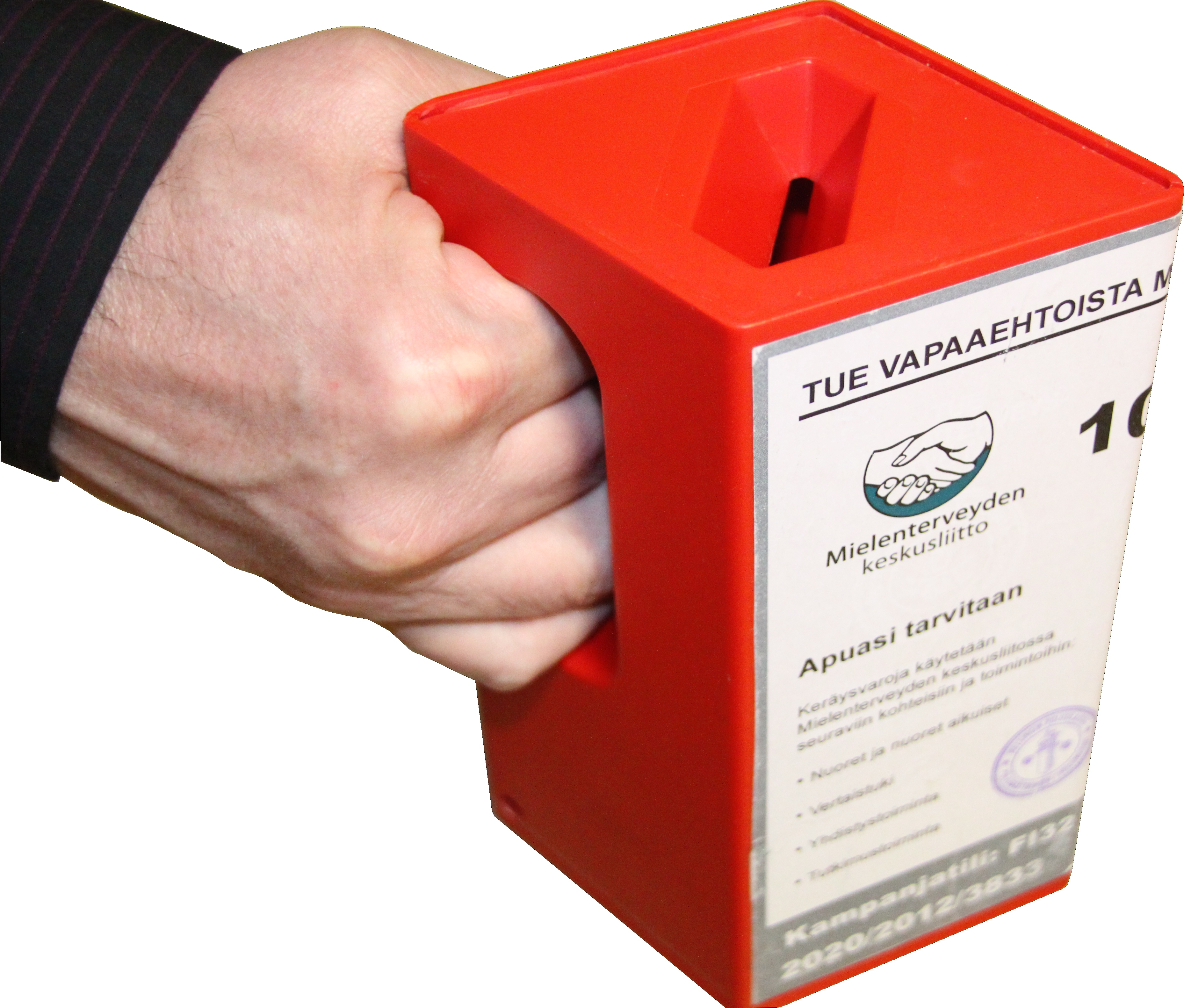 Hand holding a red fundraising box. The box belongs to Finnish Central Association for Mental Health (Mielenterveyden keskusliitto, MTKL). The box has white sticker including fundraising permission received from the Police of Helsinki.